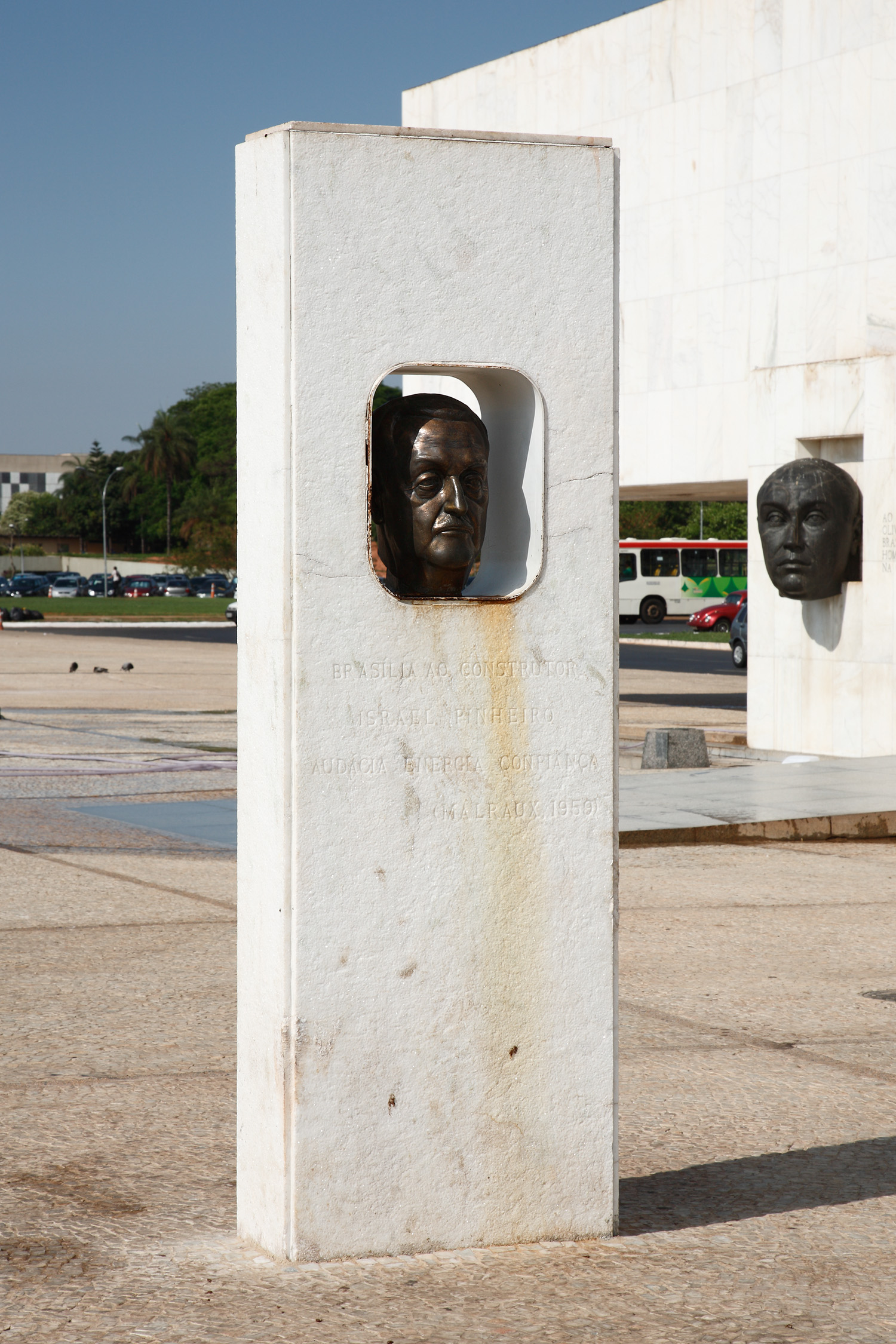 The Israel Pinheiro monument on the Praça dos Três Poderes in Brasília, Brazil, paying homage to the engineer chief during the construction of the city and first governor of the Federal District. In the background, the portrait of Juscelino Kubitschek on a wall of the City's Museum.